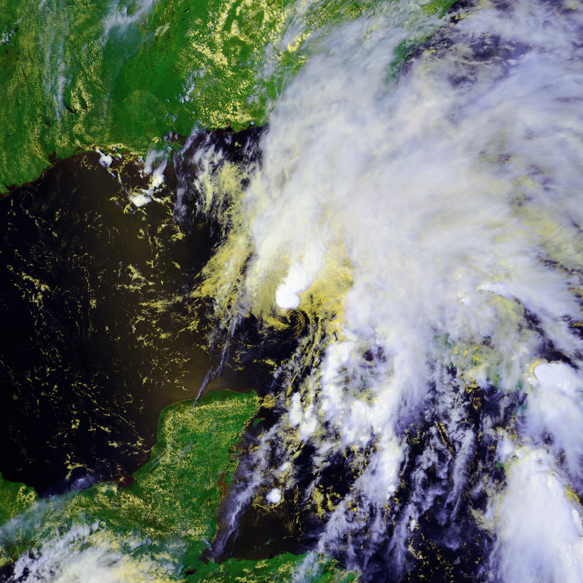 Tropical Storm Barry on June 1 at approximately 1905 UTC. This image was produced from data from NOAA-18, provided by NOAA. The storm's maximum sustained winds were near 50 mph at the time this image was taken.